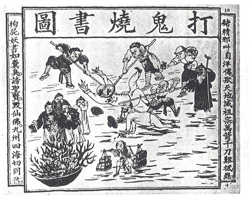 Foreigners(ghosts) were killed, foreigner books were burnt.